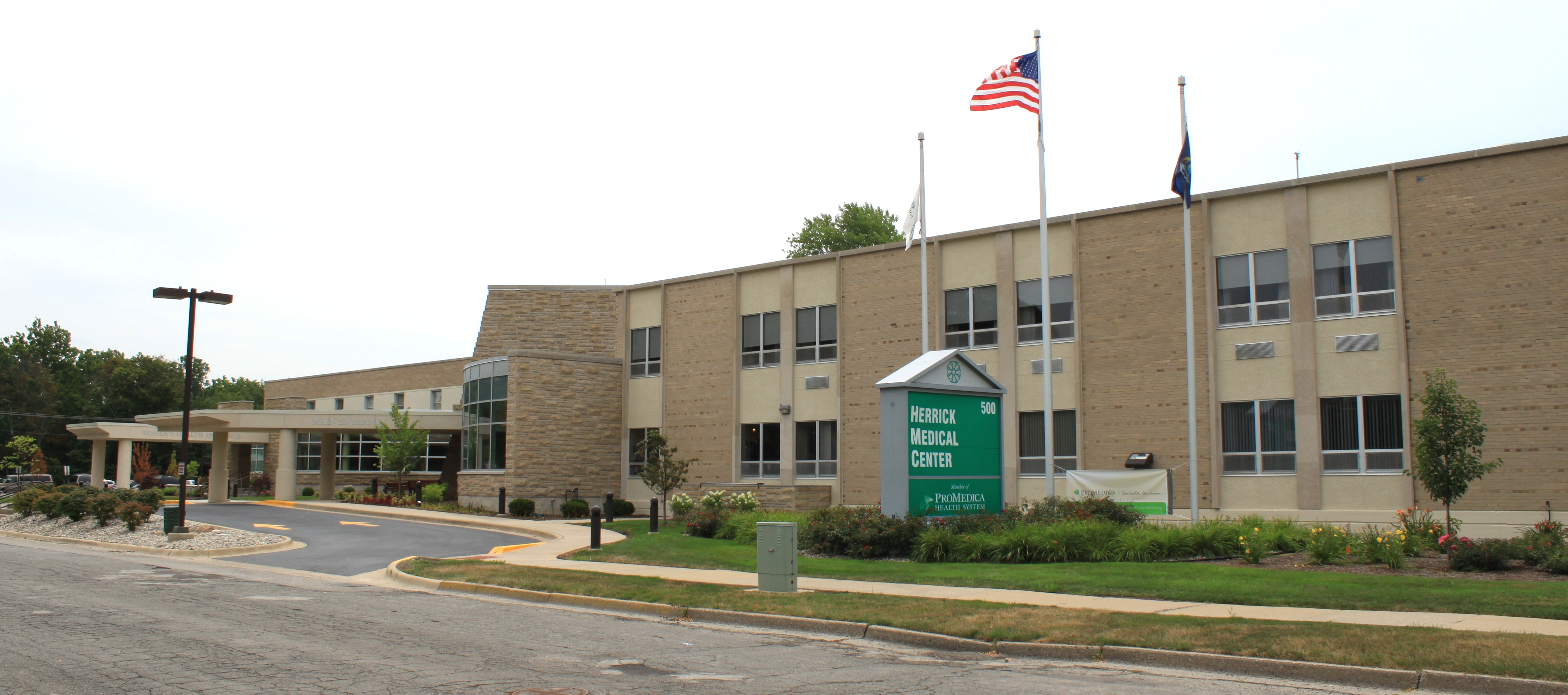 Herrick Medical Center, 500 East Pottawatamie Street, Tecumseh, Michigan.